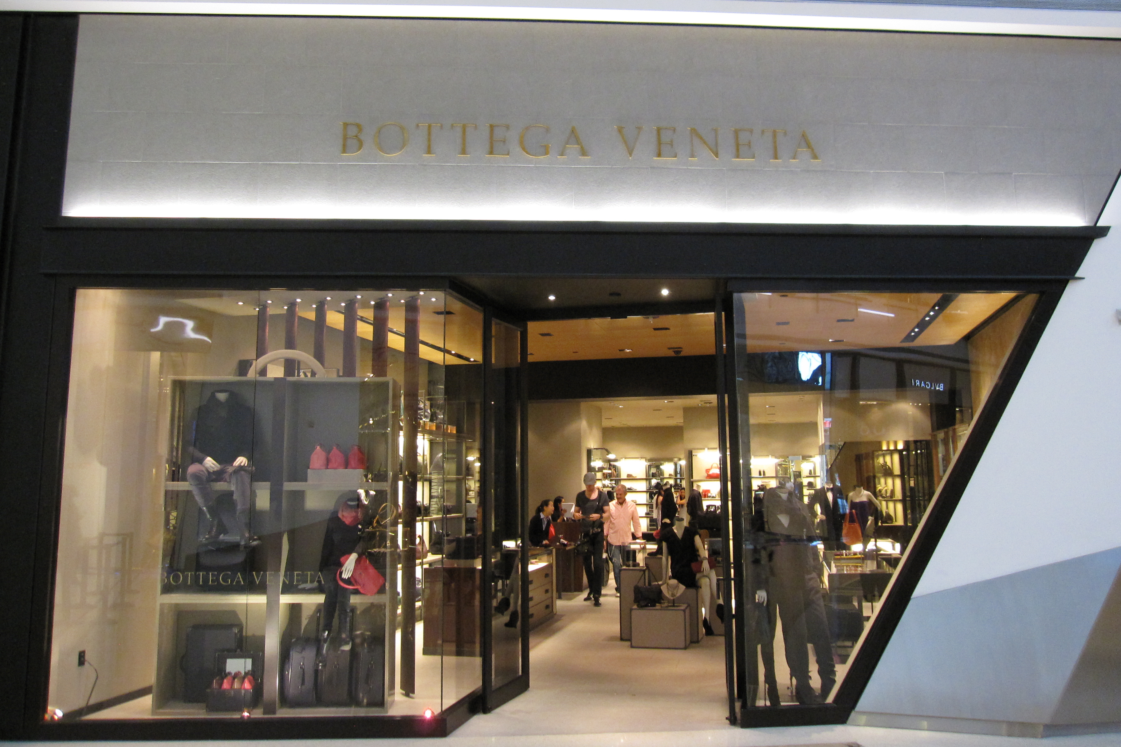 Shop in the The Crystals in Las Vegas